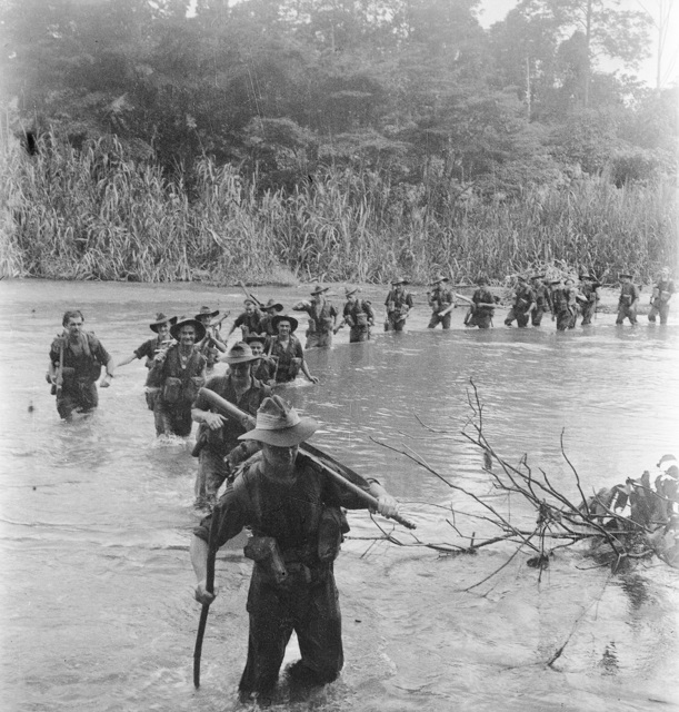 GAZELLE PENINSULA, NEW BRITAIN, 1945-05-15. TROOPS OF A COMPANY, 37/52 INFANTRY BATTALION, CROSSING A RIVER DURING THE LAST DAY OF THEIR TREK FROM RILE TO MAVELU, OPEN BAY. ATER CROSSING THE MAVELO RIVER THEY ARRIVE AT THE BEACH ON THE NORTH COAST OF NEW BRITAIN AND PREPARE FOR EMBARKATION TO WATU PLANTATION.